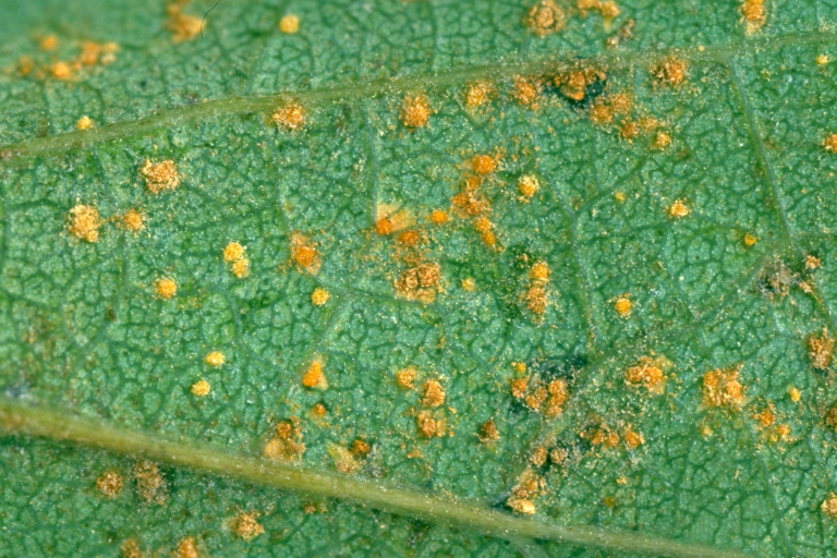 Twist rust (Sign) Melampsora populnea (Pers.) P. Karst. on alternate host Image location: Czechia